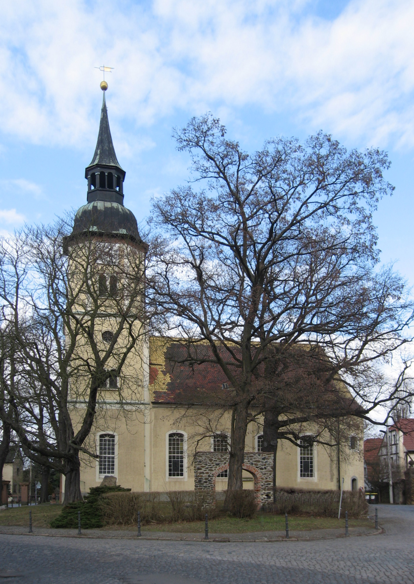 Church Leipzig-Holzhausen, Hauptstrasse